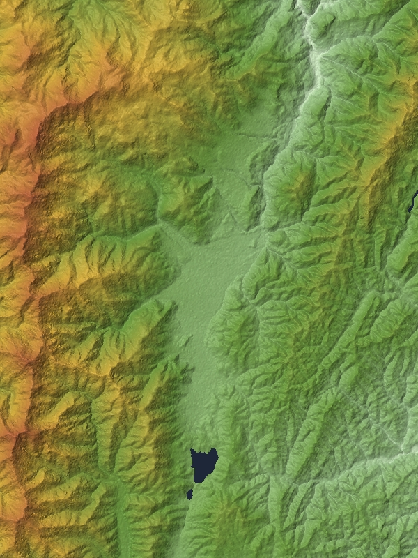 Hakuba Basin in Hakuba, Nagano Prefecture, Honshu, Japan.